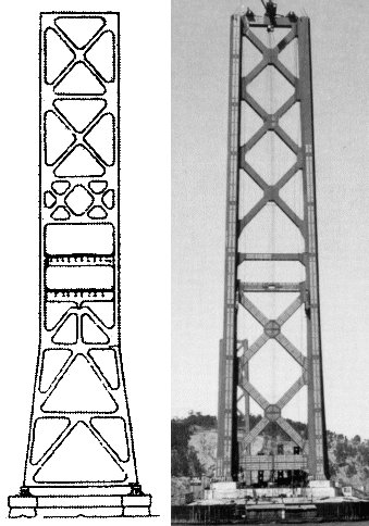 Comparison of 1930 sketch of Bay Bridge tower versus 1935 construction photo of tower 5 as built.